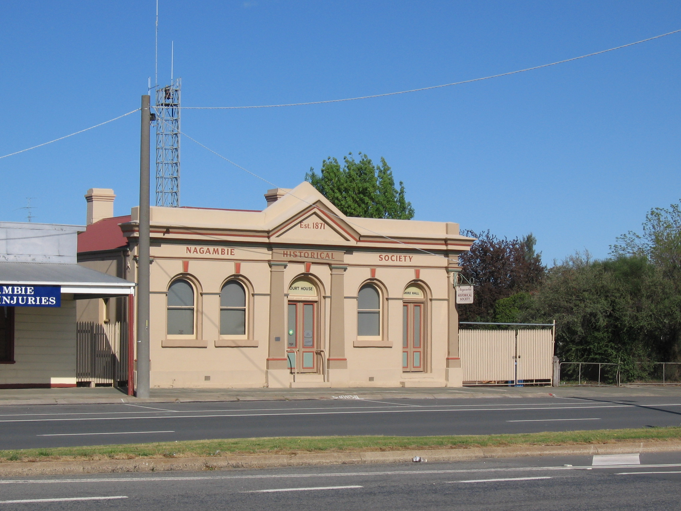 Historic Court house and Shire Hall at Nagambie, Victoria, now home to the Nagambie Historical Society